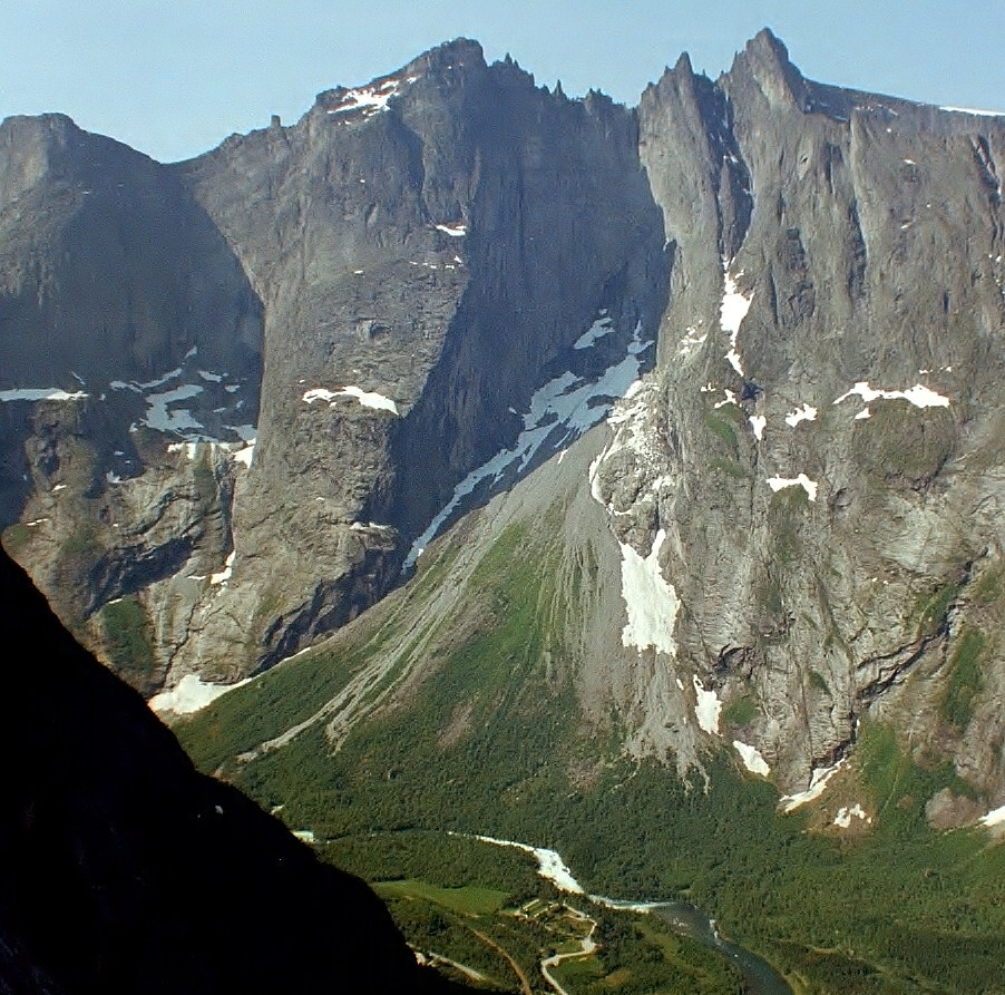 Trollveggen (Troll Wall) in Norway in June 2002. The picture is taken from the opposite ridge which is located to north from Romsdalshornet peak and to west from Vengedalen. The river valley down is Romsdal.